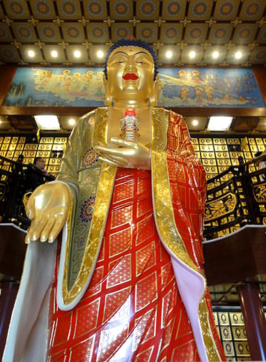 Buddha Statue in Sha Tin